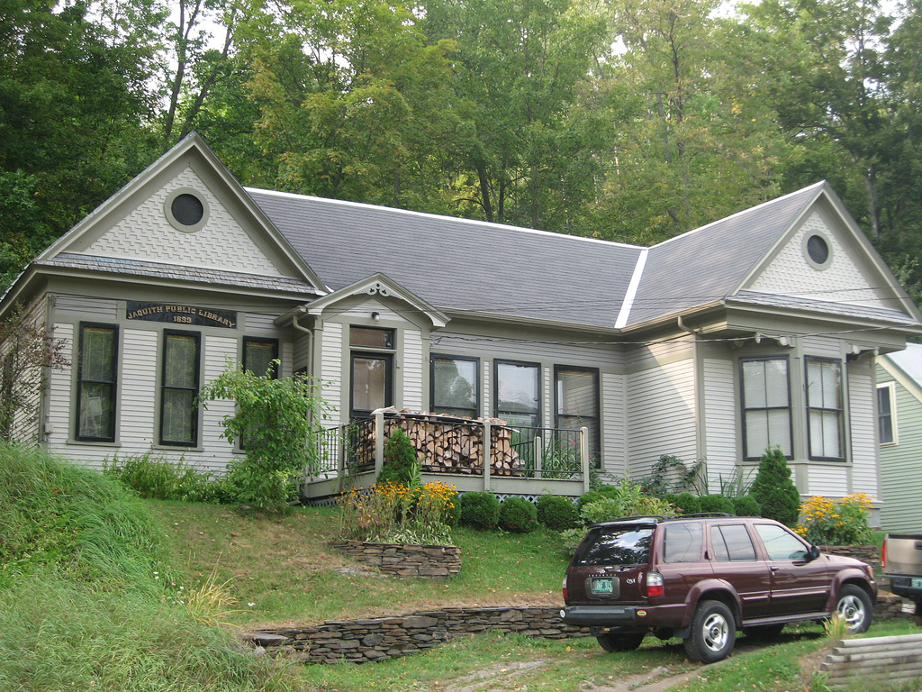 Marshfield, Vermont